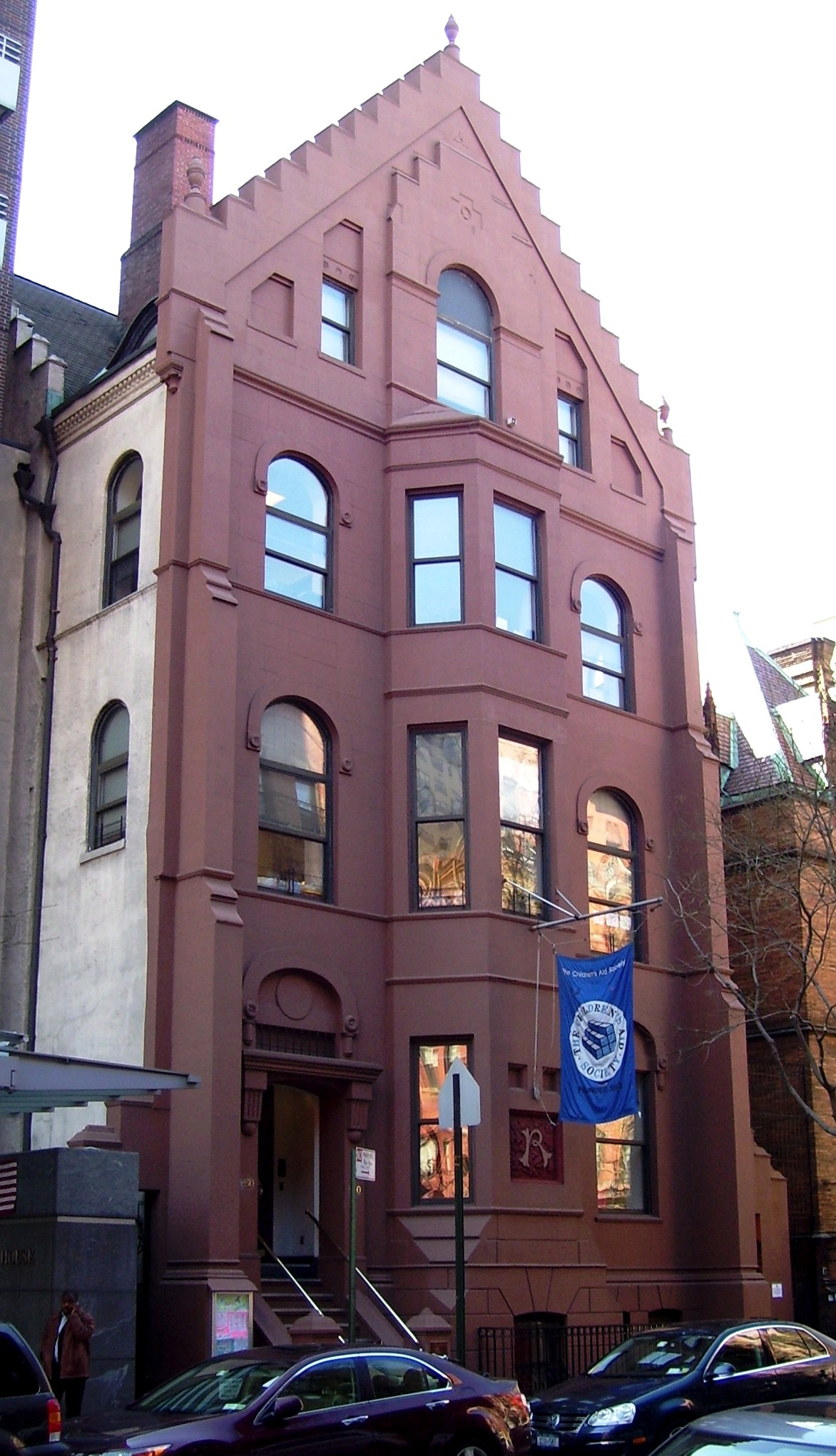 The Rhinelander Children's Center of the Children's Aid Society at 350 East 88th Street between First and Second Avenues in the Yorkville neighborhood of Manhattan, New York City, was built in 1891 and designed by Vaux & Radford. The building was remodeled in 1958, altering the facade. (Source: AIA Guide to NYC (4th ed.))